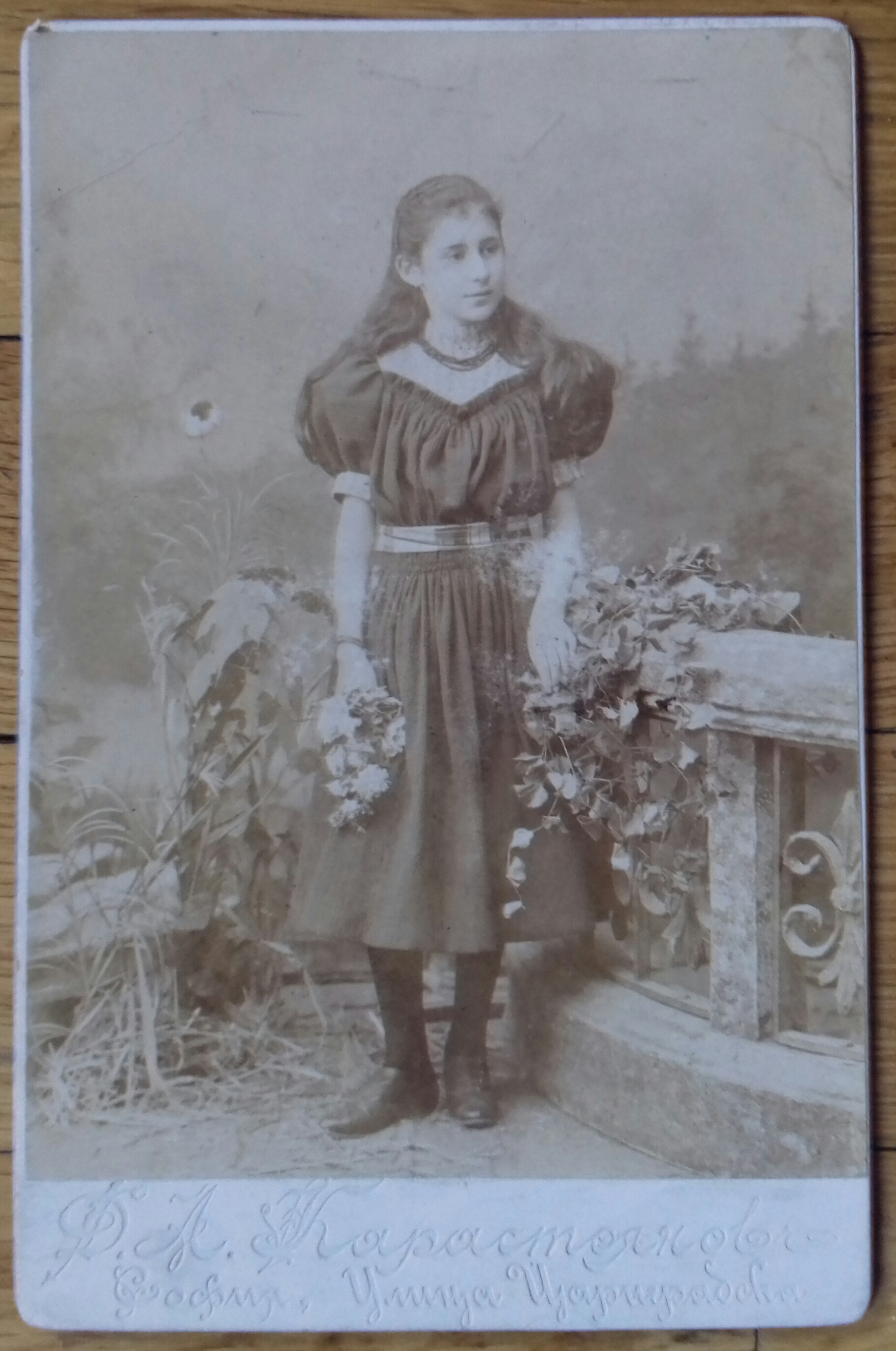 Konstantsa Lyapcheva